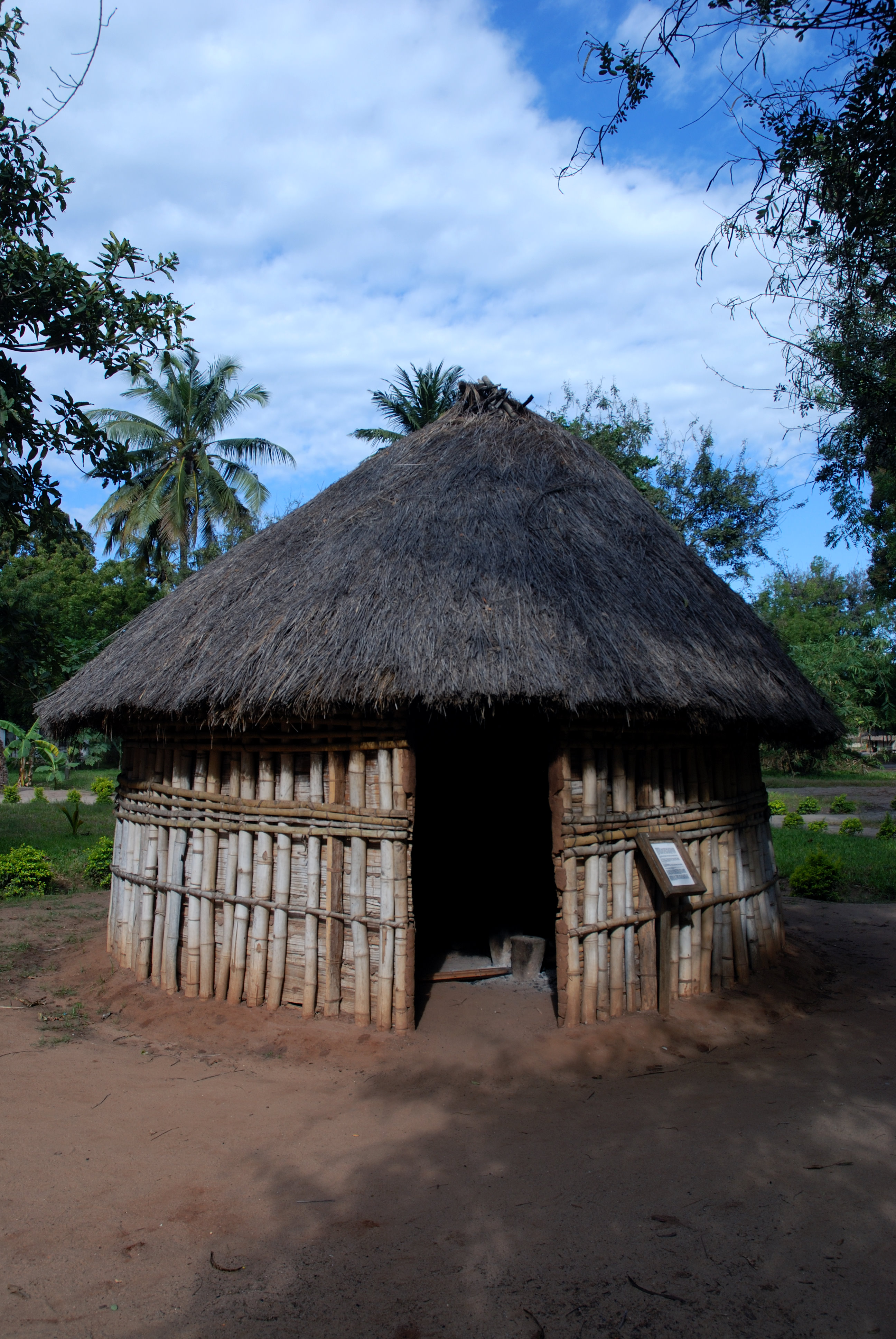 Reconstruction of a traditional Tanzanian hut in the Village Museum (Kijiji cha Makumbusho) of Dar es Salaam, Tanzania